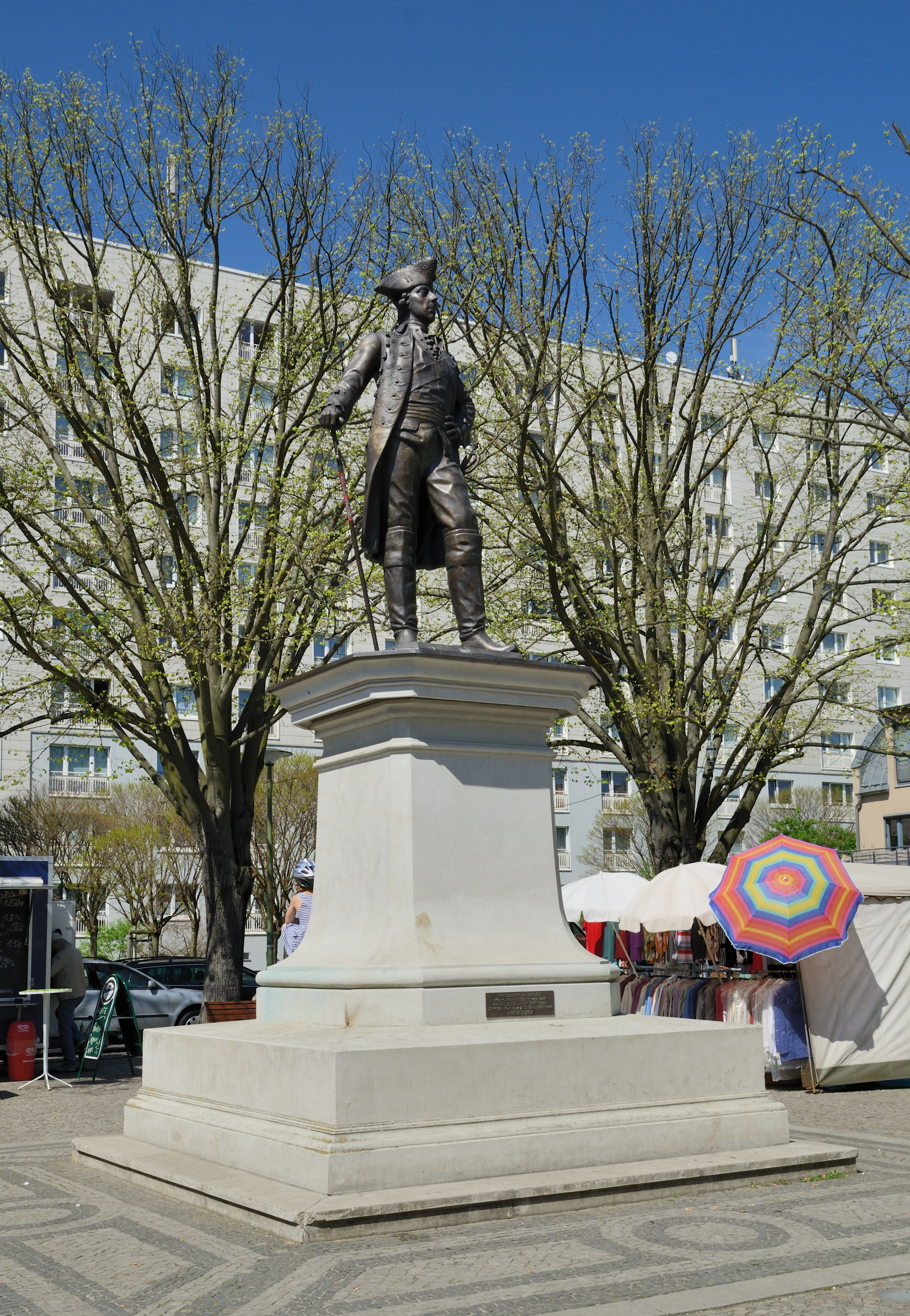 Berlin-Friedrichshagen: Memorial of Friedrich II.